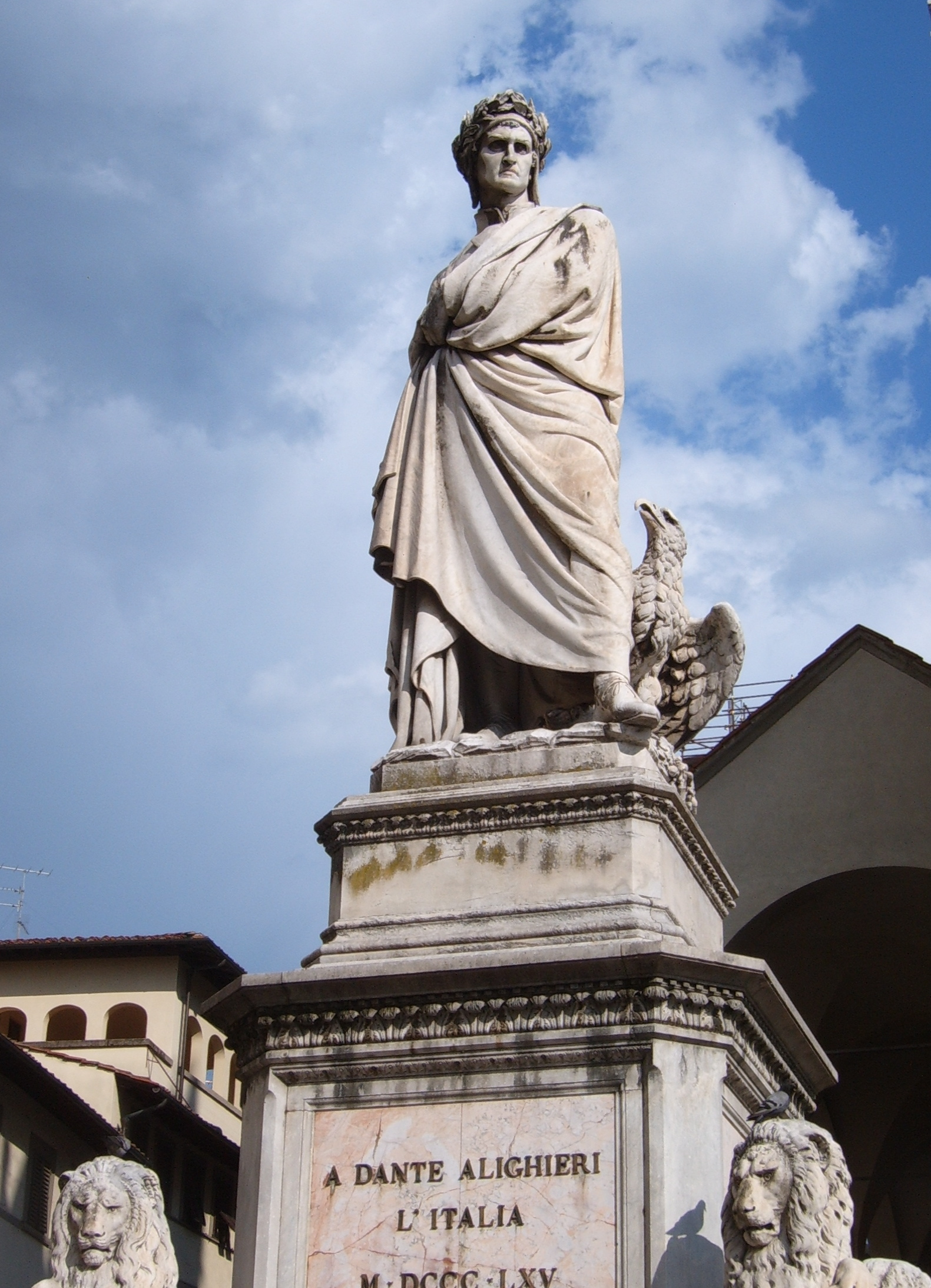 Dante Alighieri statue next to Santa Croce church, Florence (Italy)